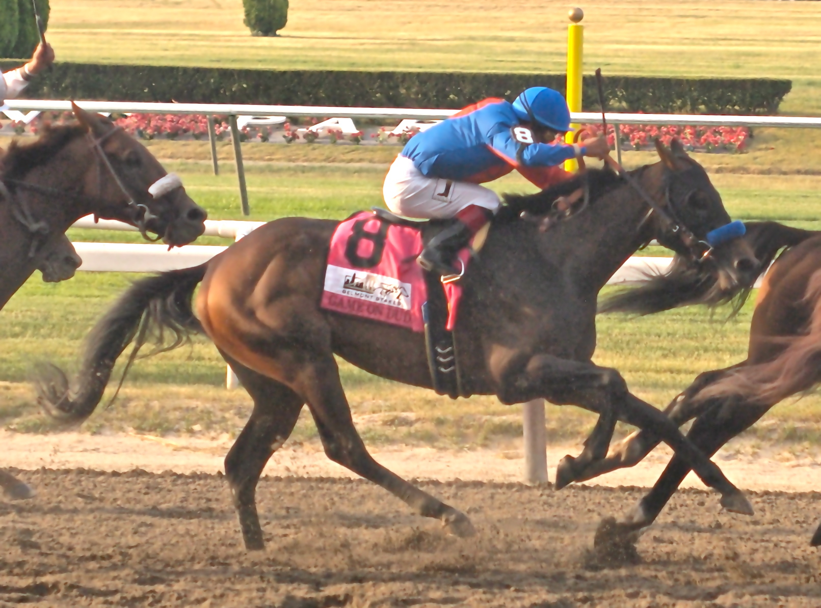 2010 Belmont Stakes finish, showing Game On Dude, who finished fourth in the race